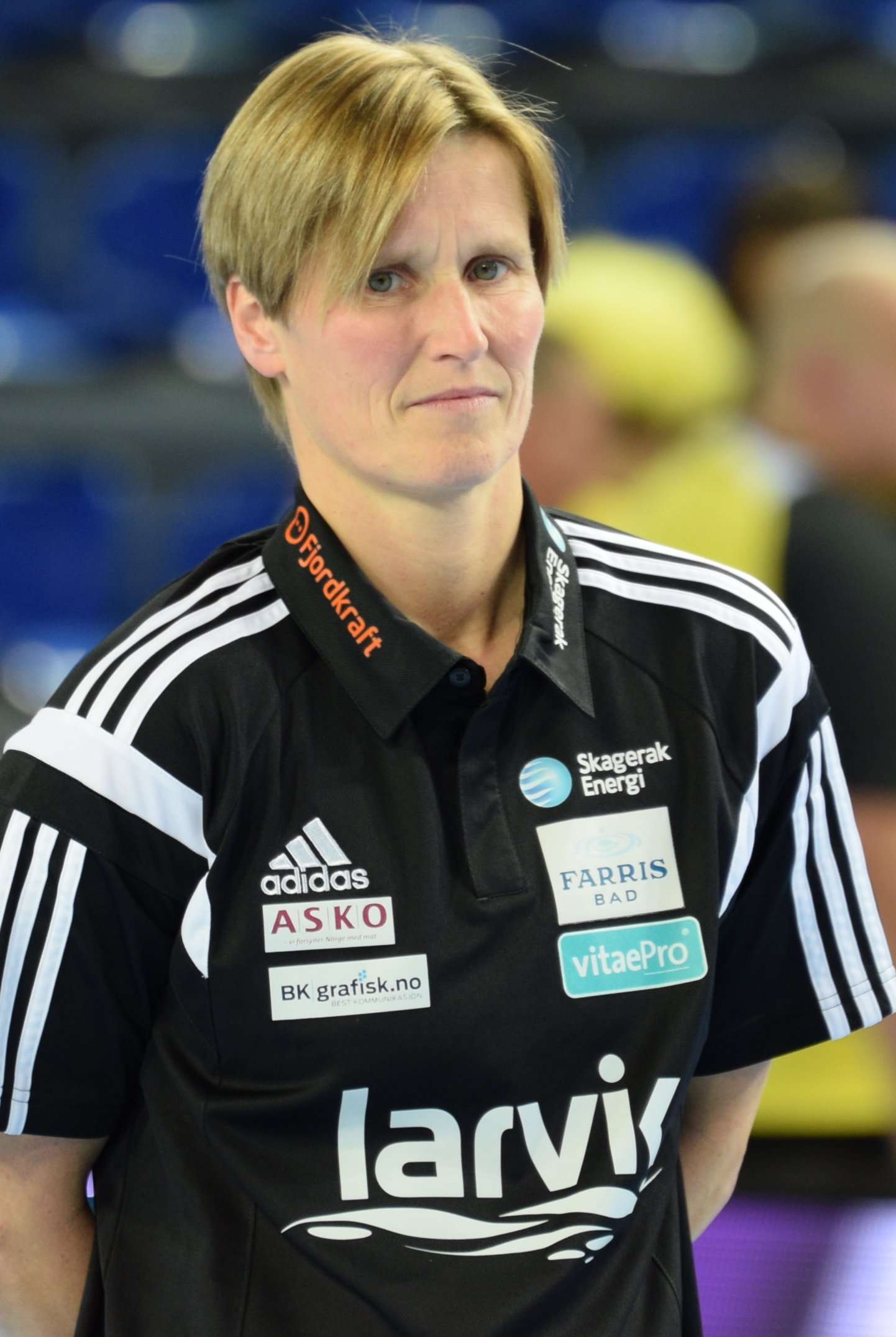 Lene Rentala - EHF Champion's League, Metz Handball / Larvik HK - 15 november 2014.